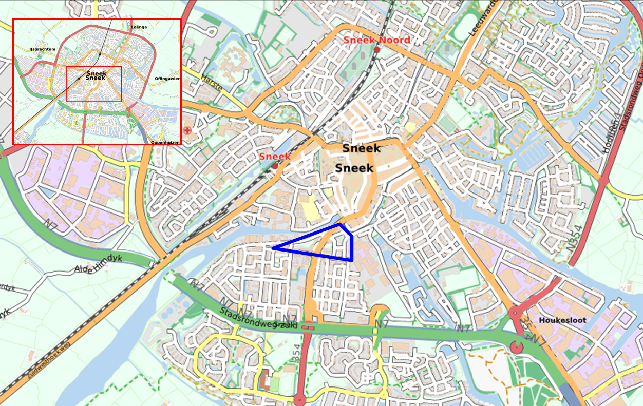 Own reproduction of OpenStreetMap. Poort van Sneek-neighbourhood Sneek.